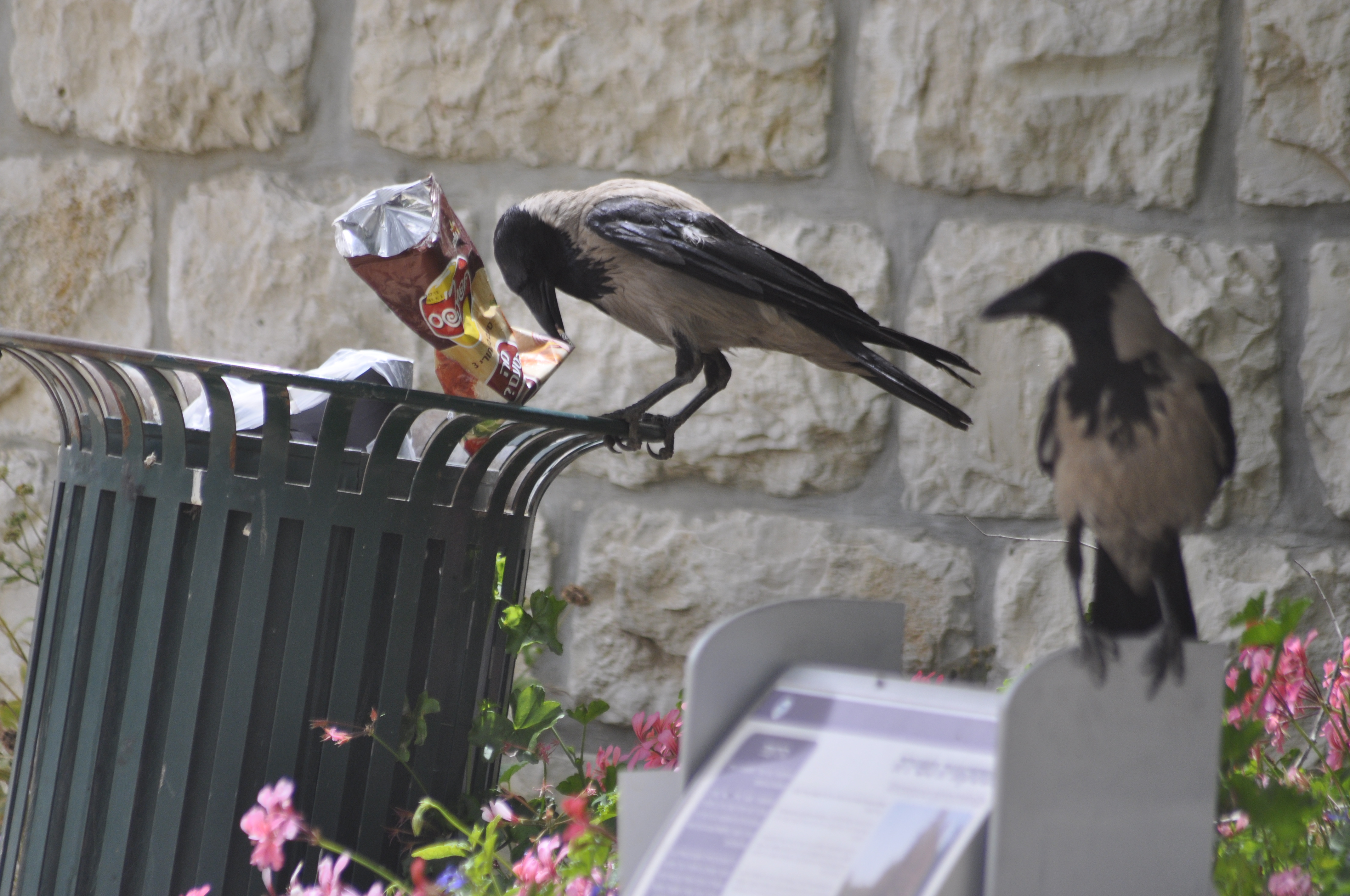 crow